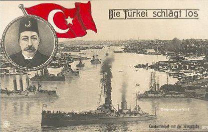 The Ottoman Navy at the Golden Horn in Constantinople (Istanbul), with the image of Sultan Mehmed V at top left. German postcard from the beginning of World War I.